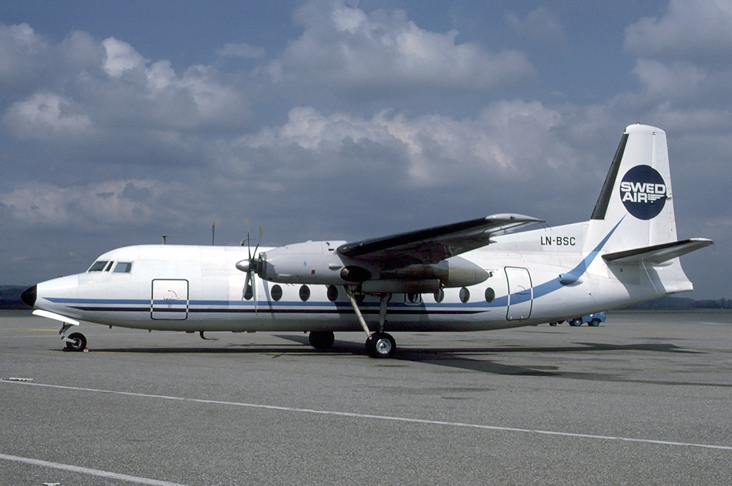 Swedair Fokker F-27J LN-BSC at Euroairport